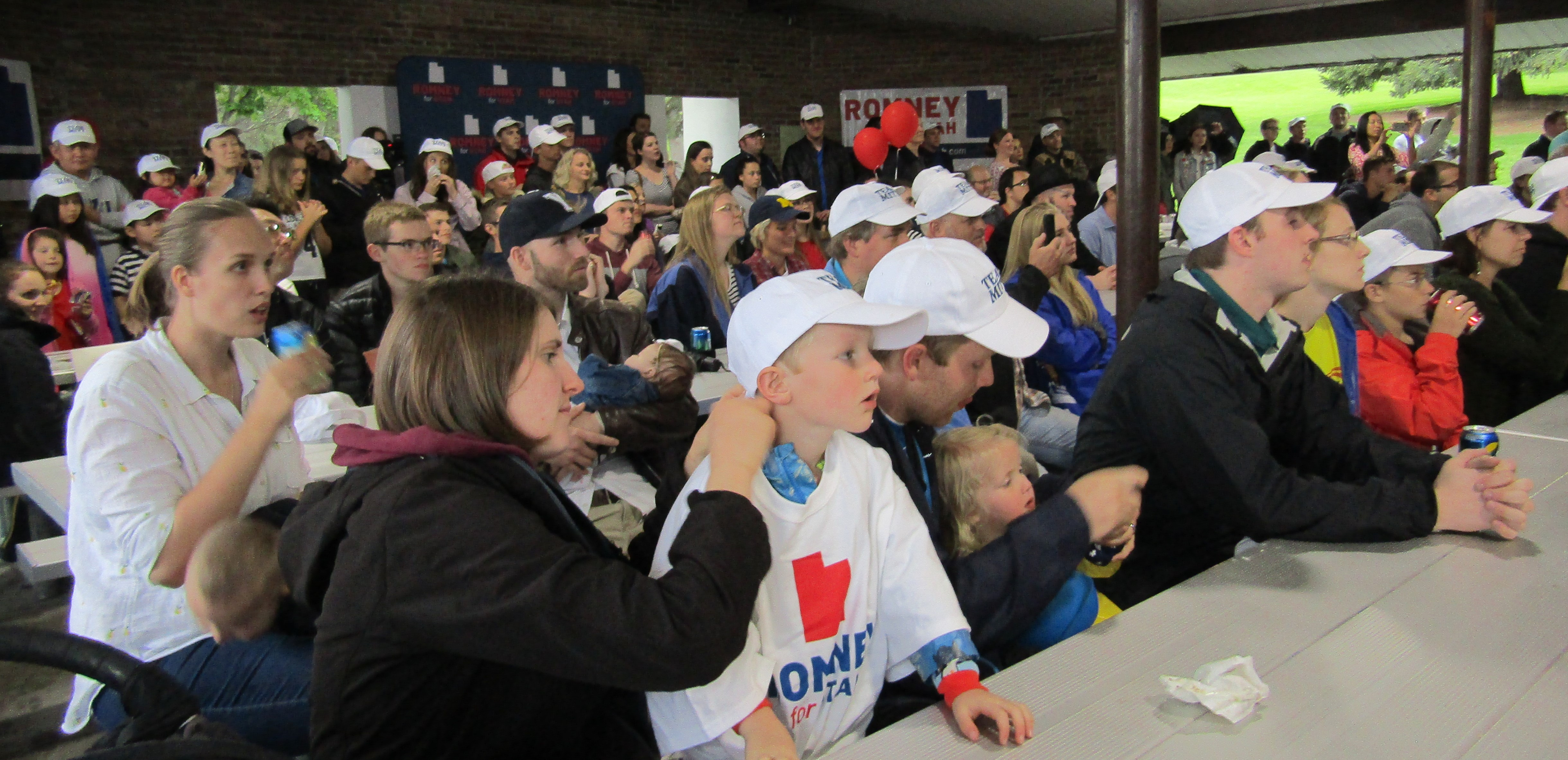 People attending a campaign event in Provo, Utah for Mitt Romney's senatorial campaign.